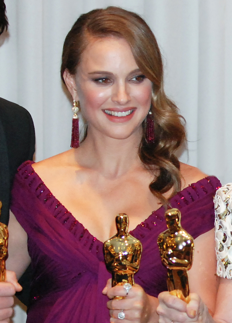 Oscar Winners Natalie Portman at the 83rd Academy Awards Feb. 27, in Hollywood, Calif.